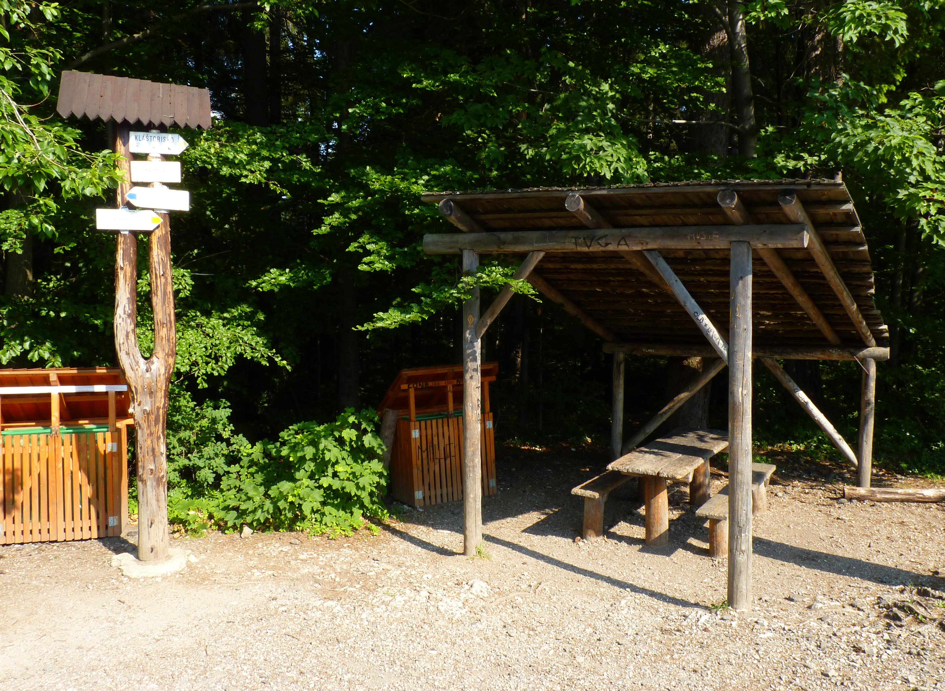 National nature reserve Suchá Belá, Slovak Paradise, Slovakia